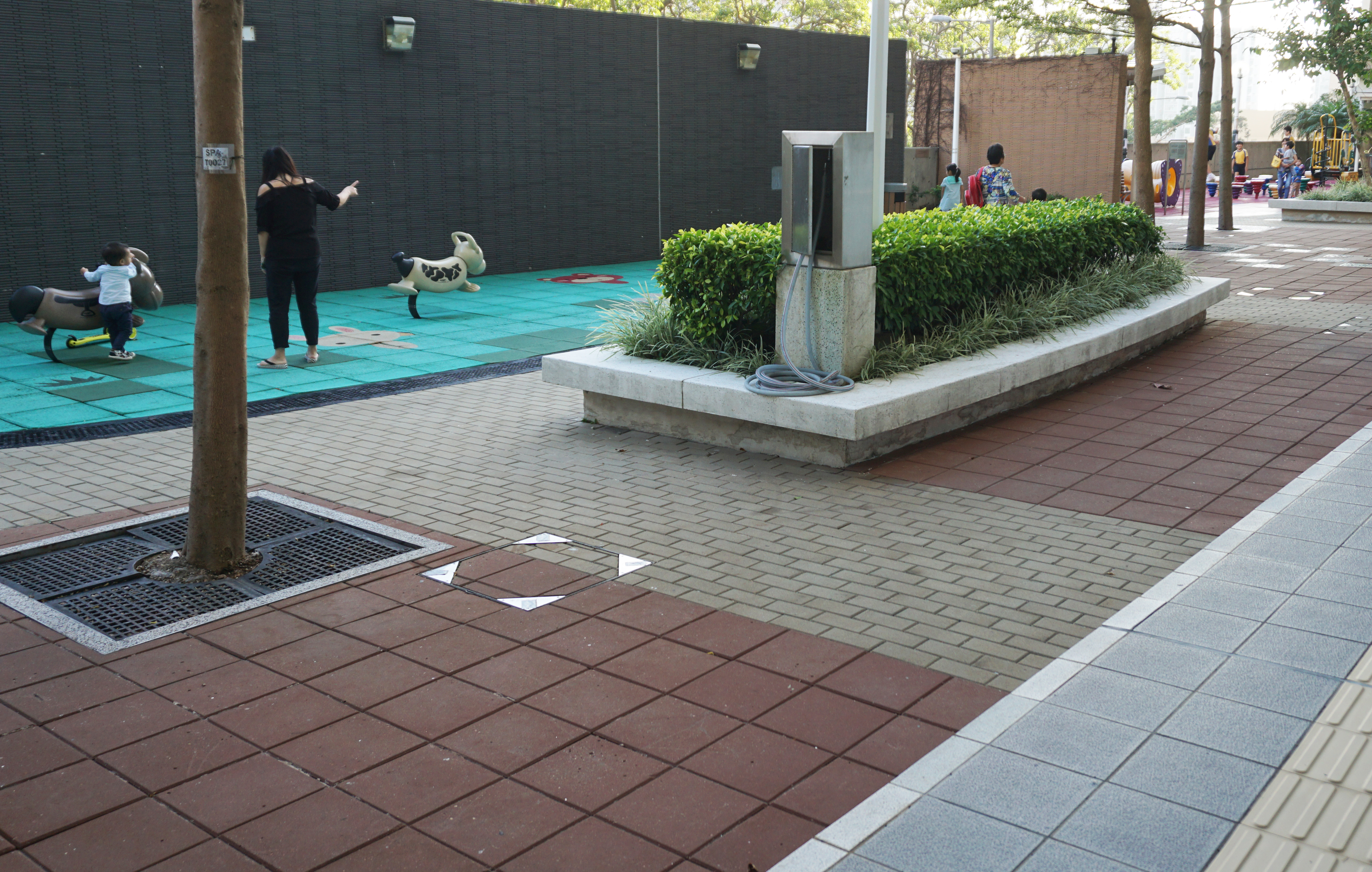 Shatin Pass Estate in Tsz Wan Shan, Hong Kong.